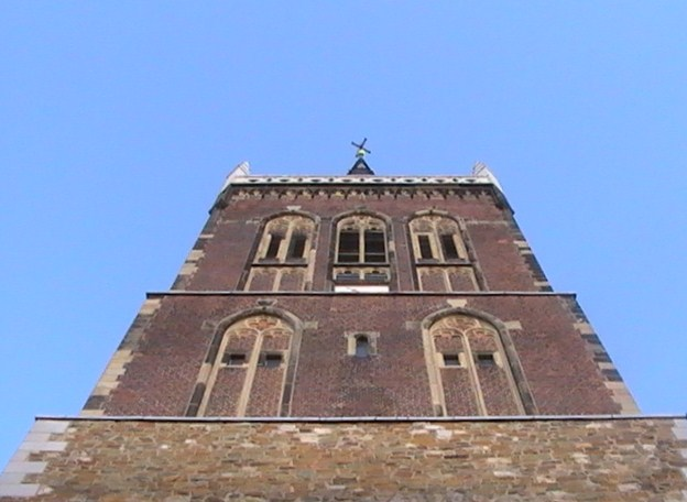 St. Peter und Paul church in Eschweiler, 2008.